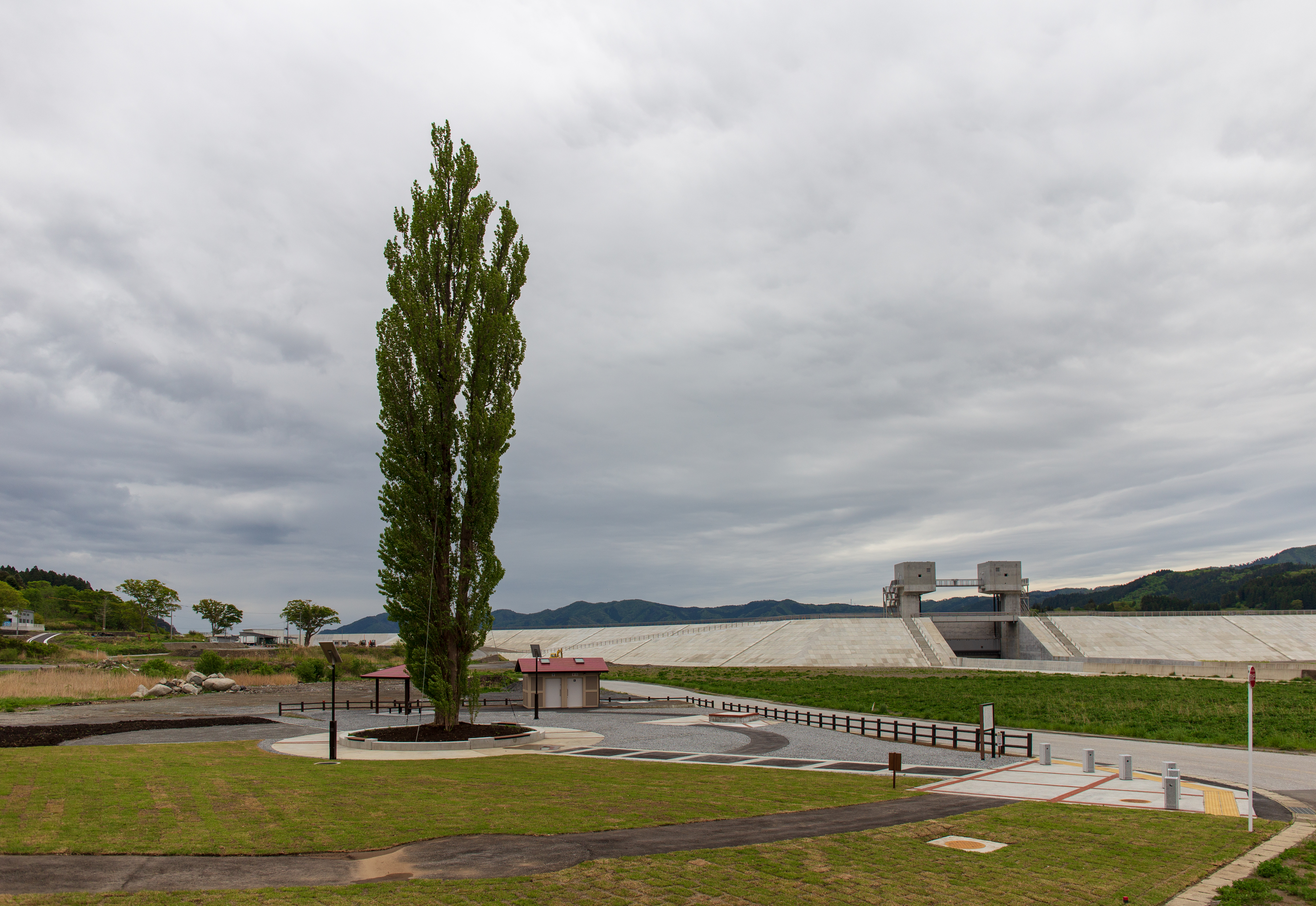 Dokonjo Poplar ("Gutsy Poplar") square in Okirai, Ofunato City, Iwate Prefecture, Japan. The poplar tree survived the 2011 Great East Japan Earthquake and its subsequent tsunami, becoming the symbol of hope for recovery